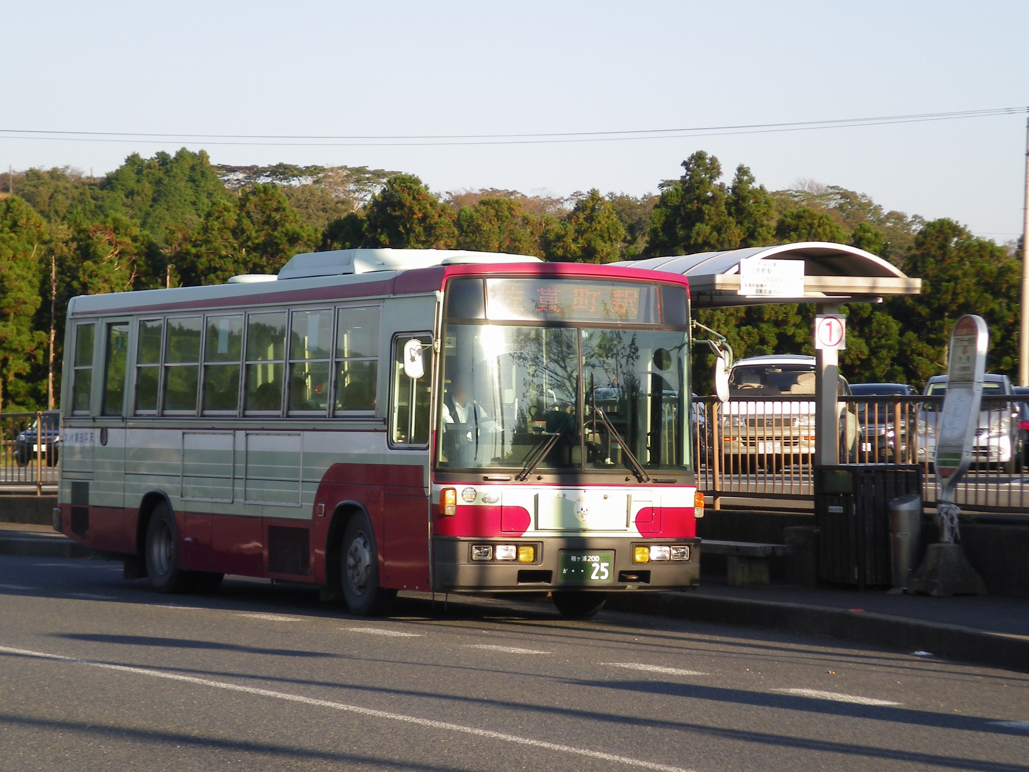 Nissan Diesel (UD Trucks),Space Runner RM. Shooting at Mother Farm.